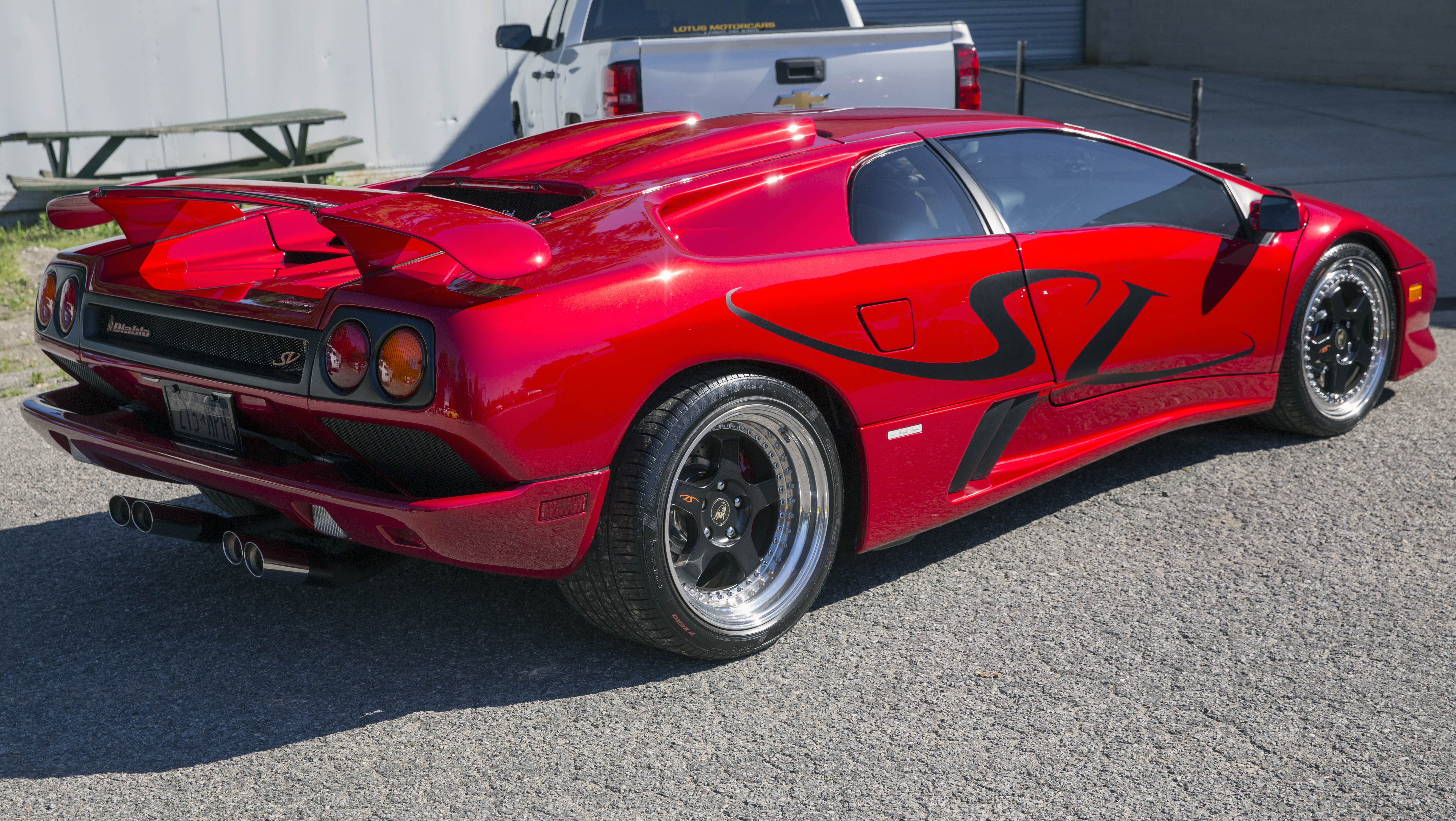 1998 Lamborghini Diablo SV Monterey Edition on O.Z. Racing Aluminum wheels. This one is Monterey Edition #5 of 20 and is finished in Rosso Vik, a metallic shade which changes from candy red to copper depending on light and angles, with Champagne leather interior. It also has a carbon fiber gear shifter, a leather luggage set, Brembo 15-inch drilled disc brake set, and a custom made Quick Silver exhaust system. The Monterey featured some SE30 parts added to the SV and is part of why Lamborghini didn't build a single "regular" car in over a decade.